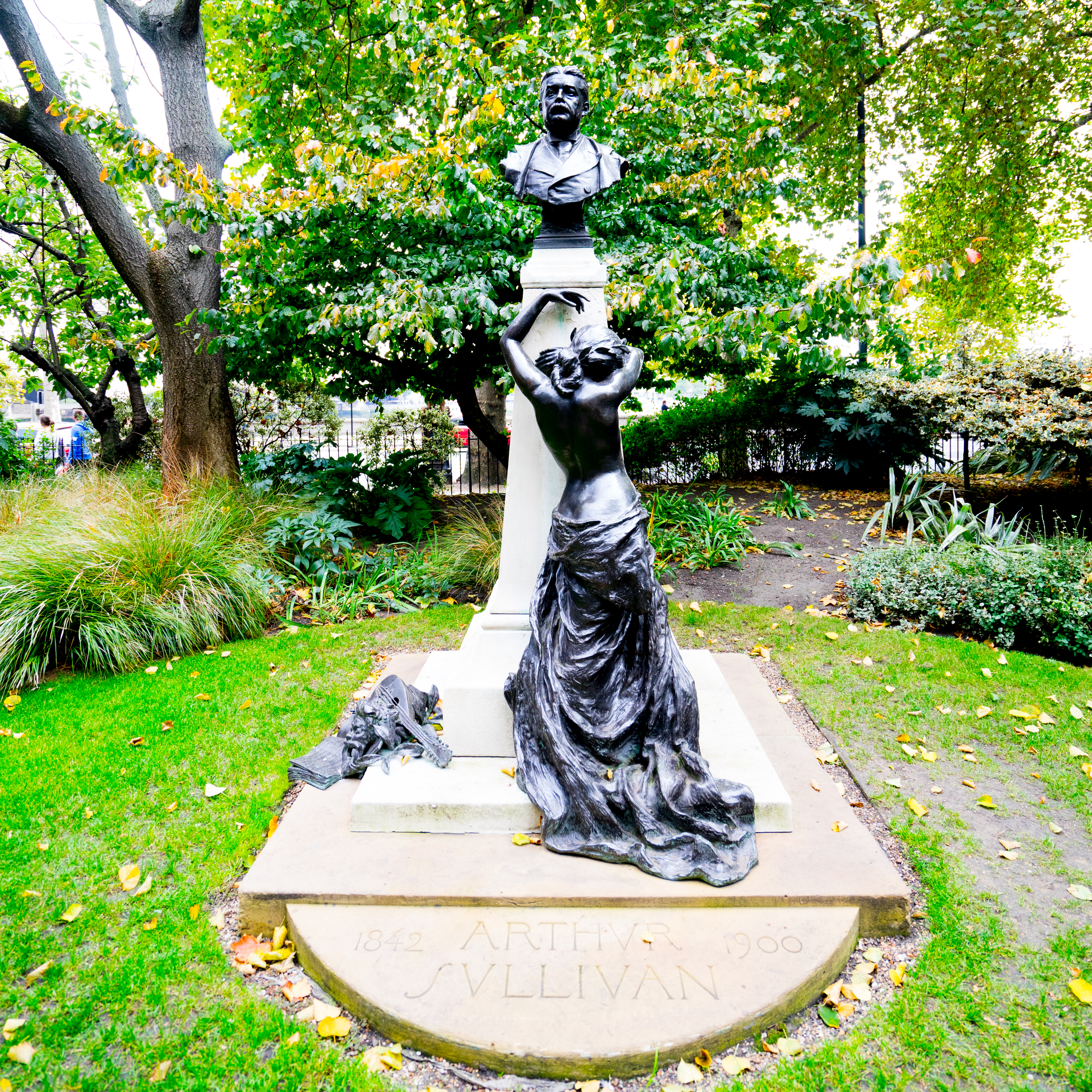 Memorial To Sir Arthur Sullivan. Photo taken by lonpicman Sullivan's muse weeps at his death. The statue is in the Victoria Embankment Gardens, not far from the Savoy Theatre and Savoy Hotel.